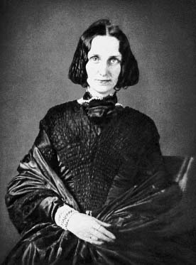 Mary Baker G. Eddy (1821–1910), founder of Christian Science